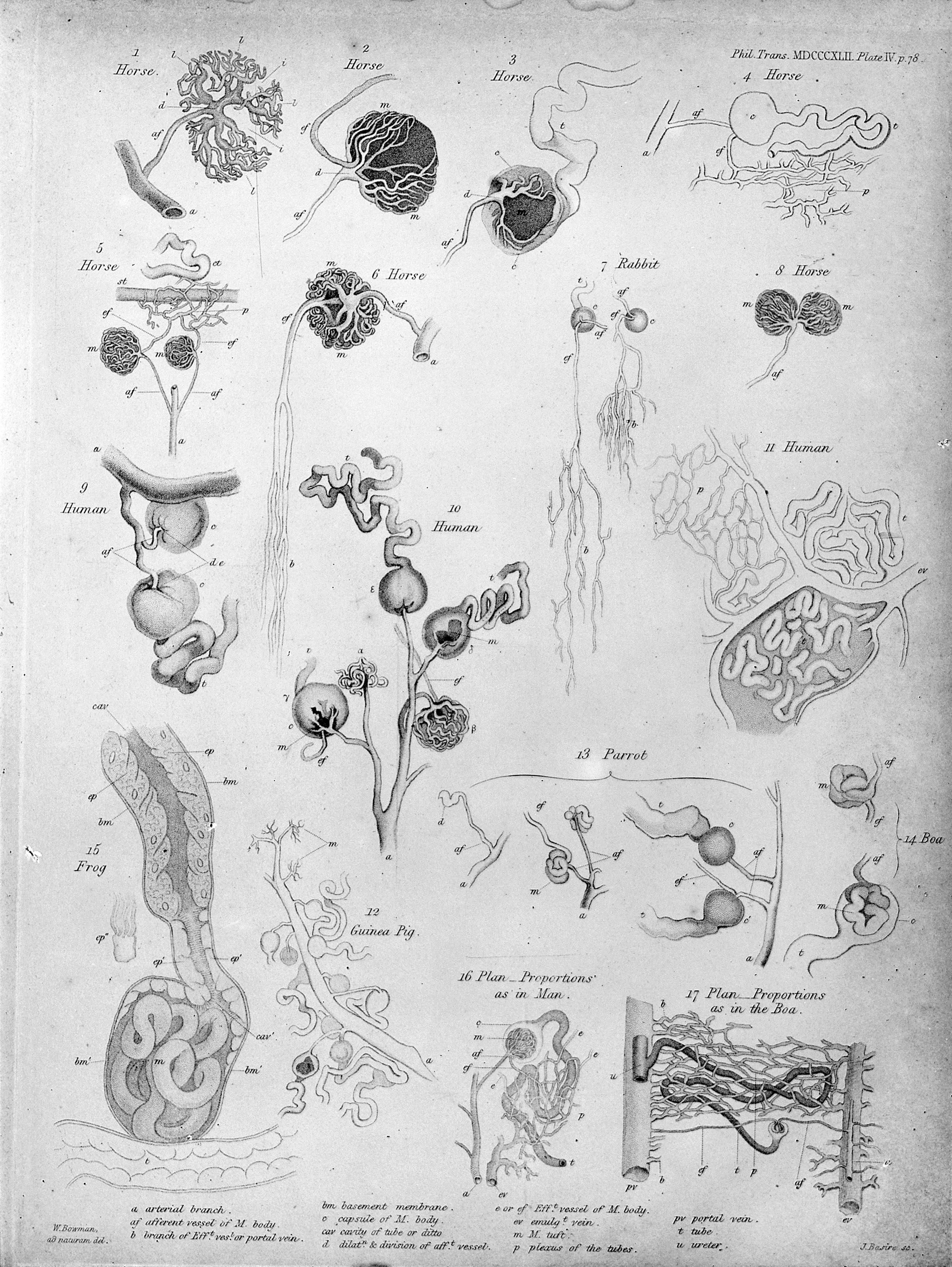 Plate showing illustrations of Bowman's capsule and Malpighian bodies. Rare Books Keywords: W. Bowman; Physiology